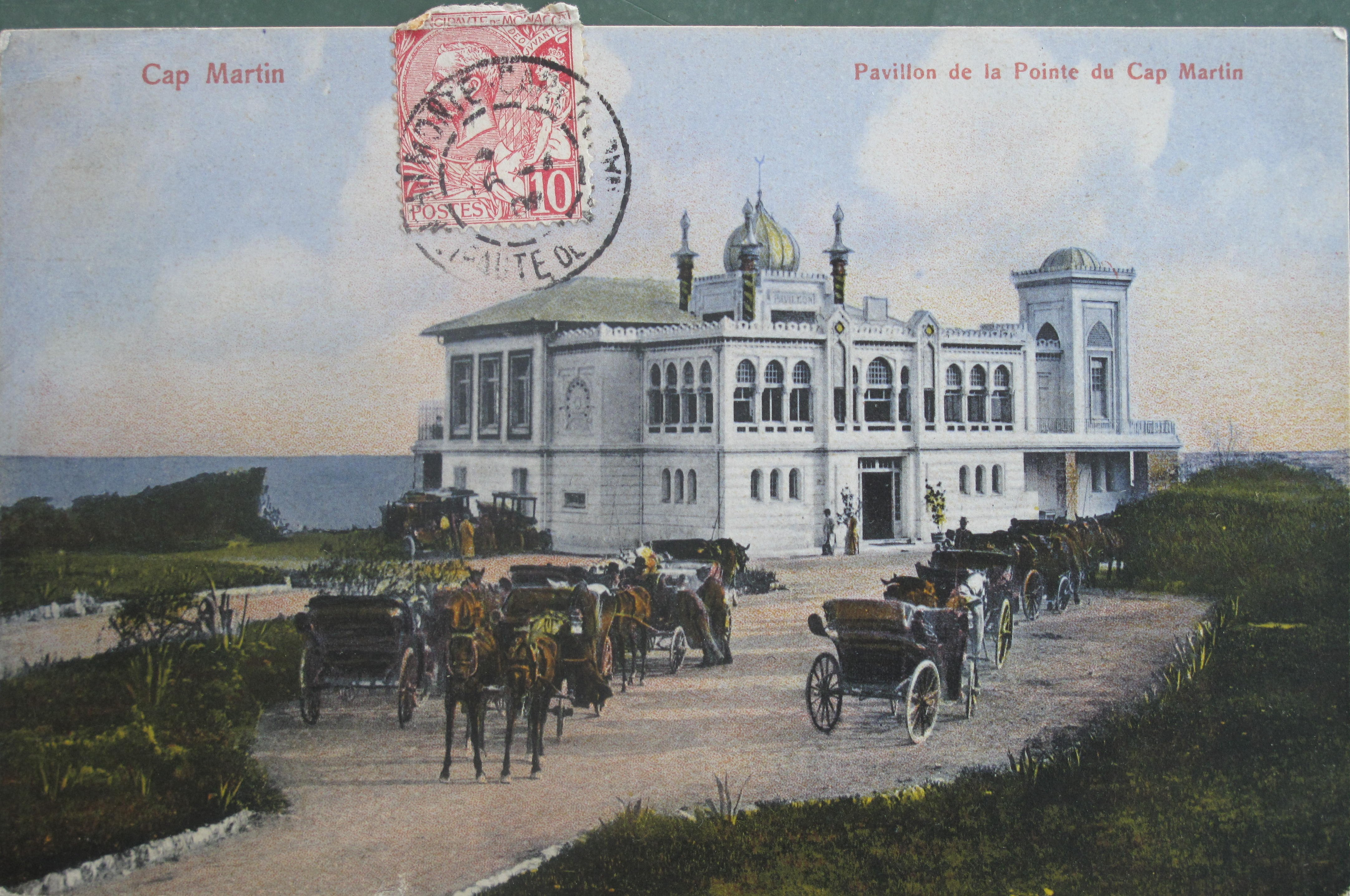 The moorish pavillon of the Grand Hotel du Cap-Martin (Alpes-Maritimes, France).